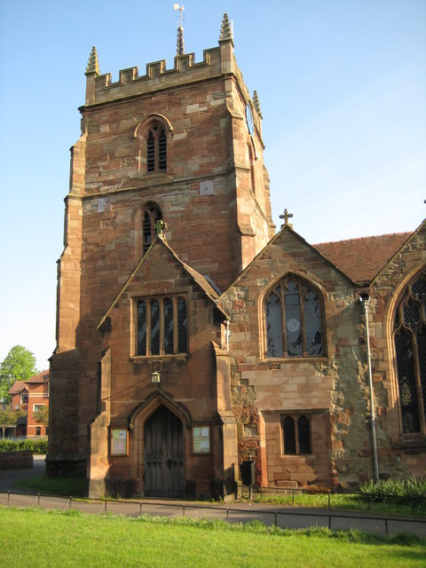 St John in Bedwardine, Worcester Parts of the church St John in Bedwardine in St John's, Worcester dates from the 12th century.